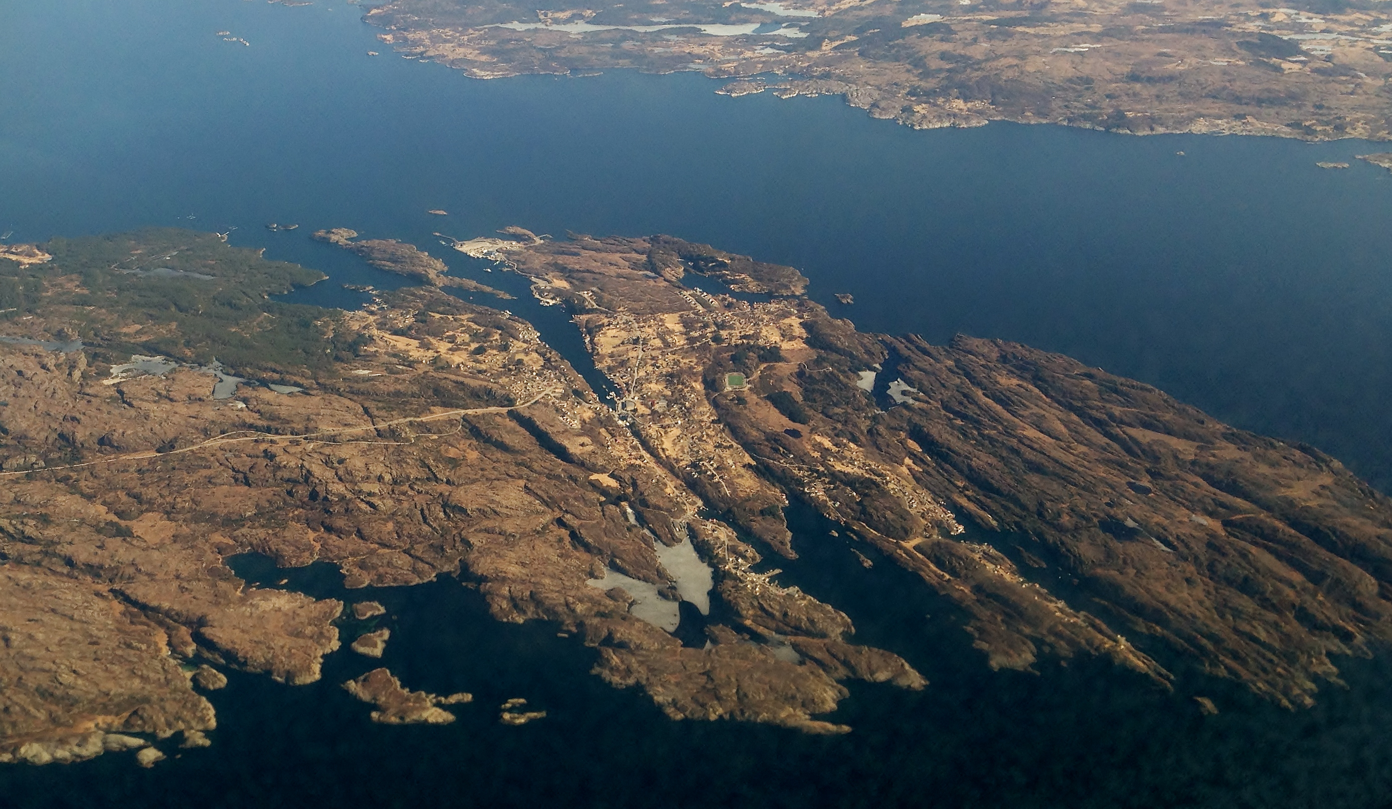 Langevåg in Bømlo, Hordaland. Bømlafjord at the top.